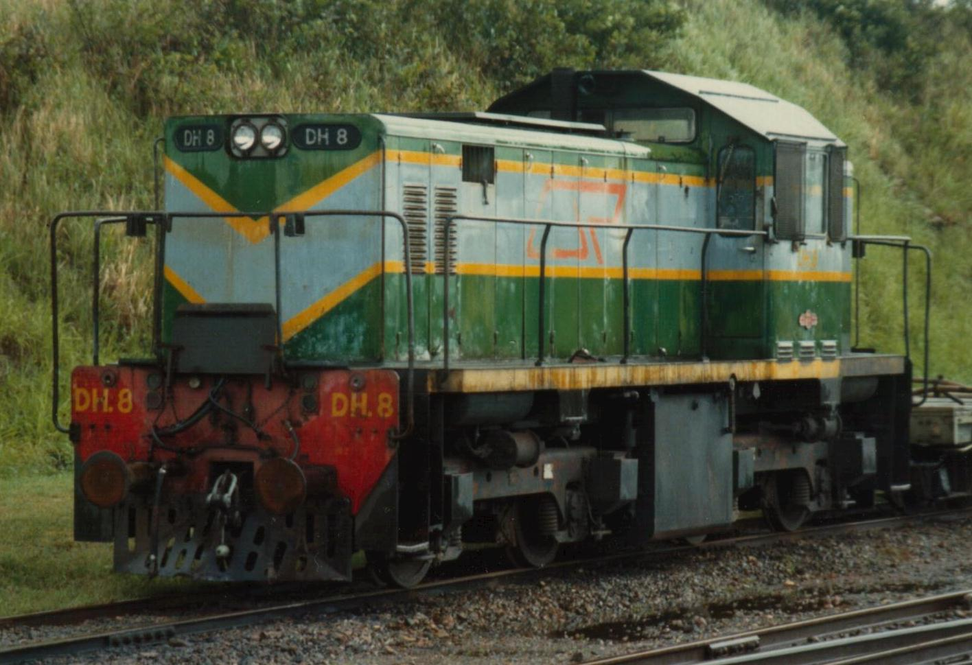 Queensland Rail locomotive DH 8 - shut down at Innisfail Station on 28 May 1986.